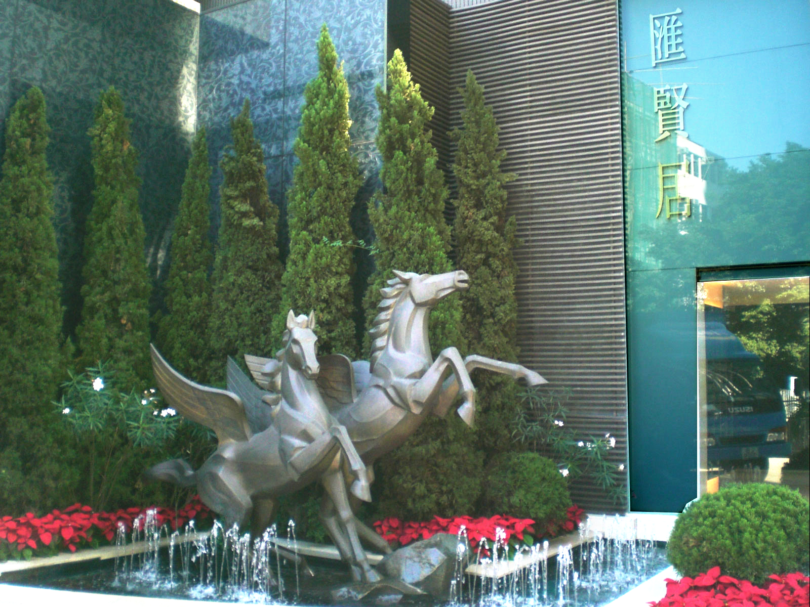 匯賢居: Center Place, No.1 High Street, Sai Ying Pung, Hong Kong